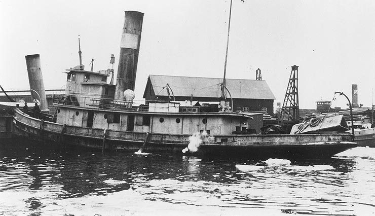 The commercial harbor tug Roselle, probably prior to her United States Navy service as minesweeper .